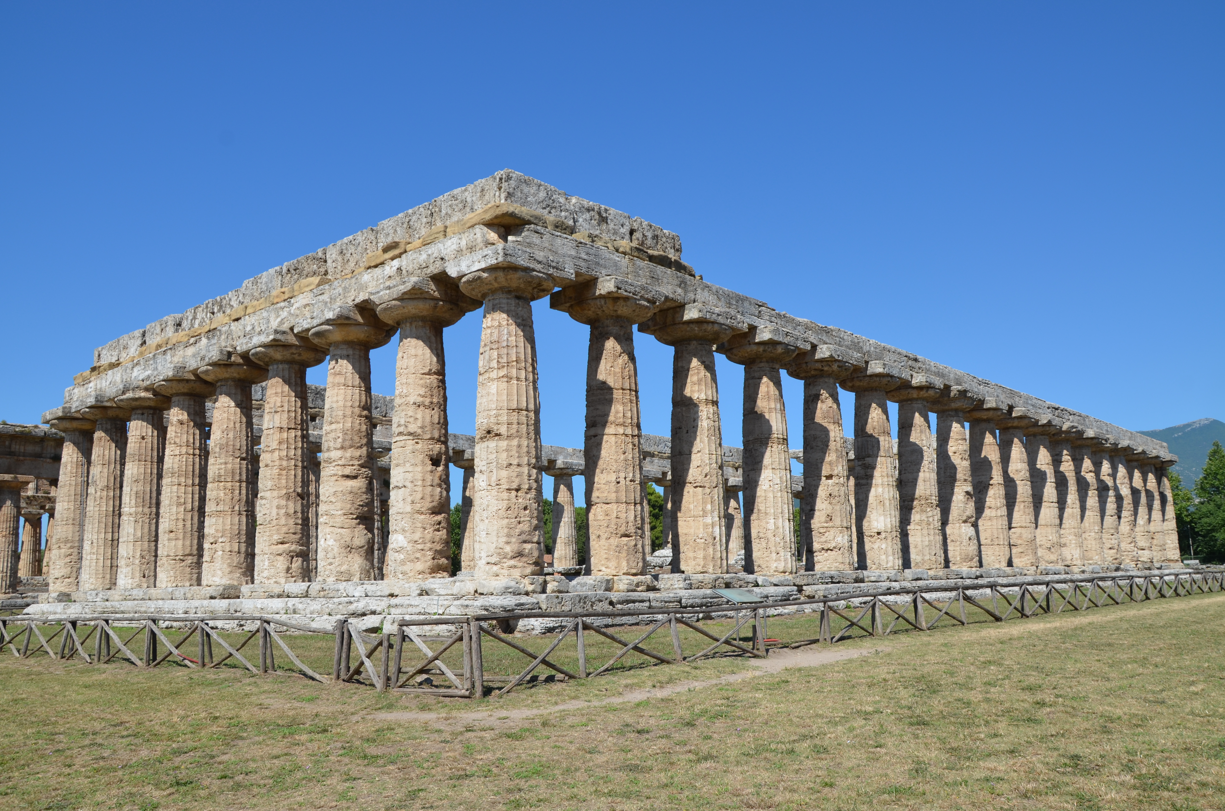 Paestum, Italy